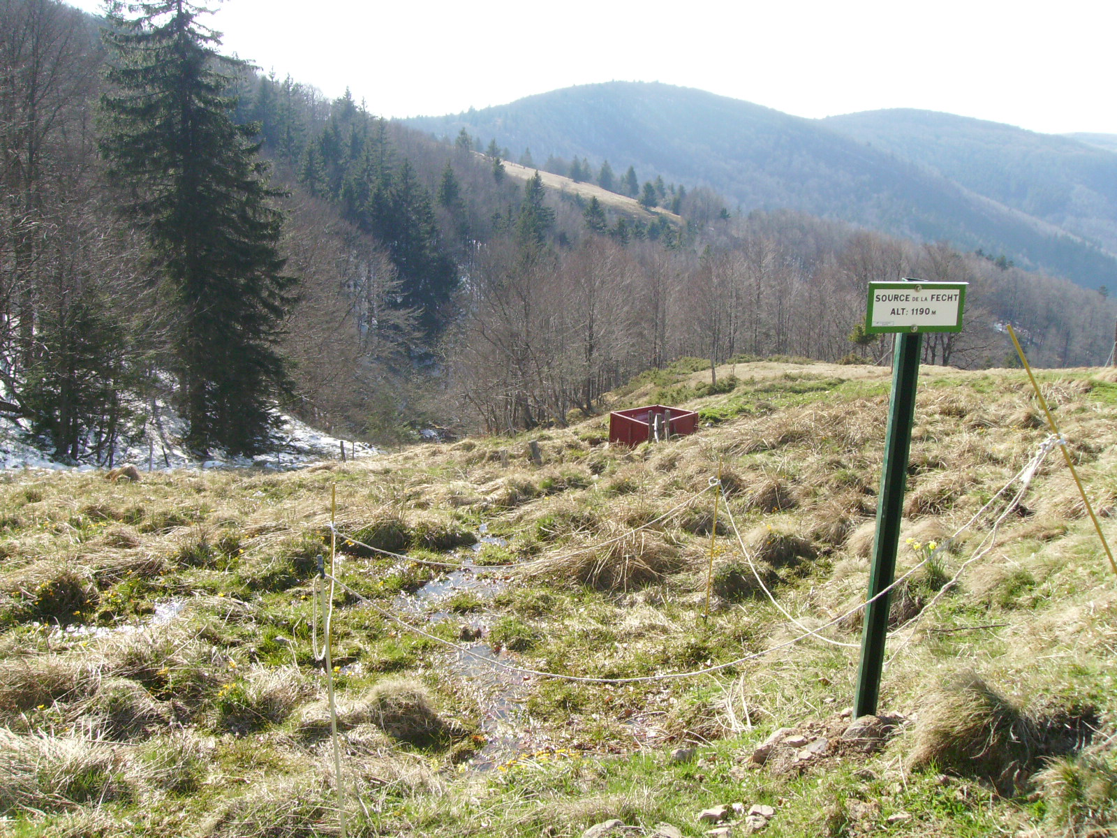 Source de la Fecht